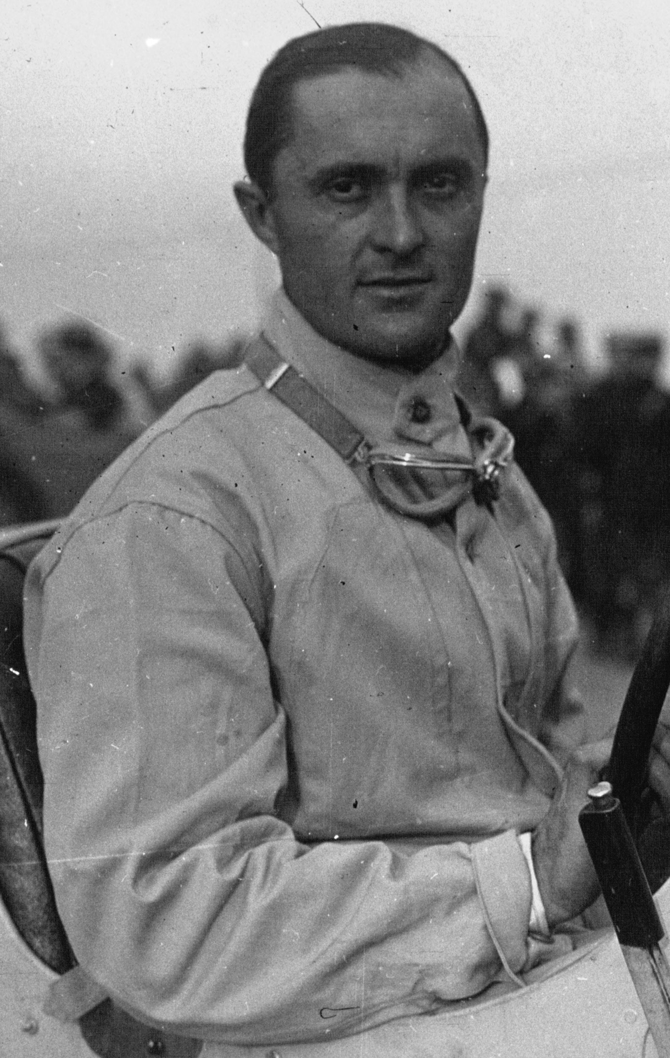 Louis Chiron in Montlhéry in 1927